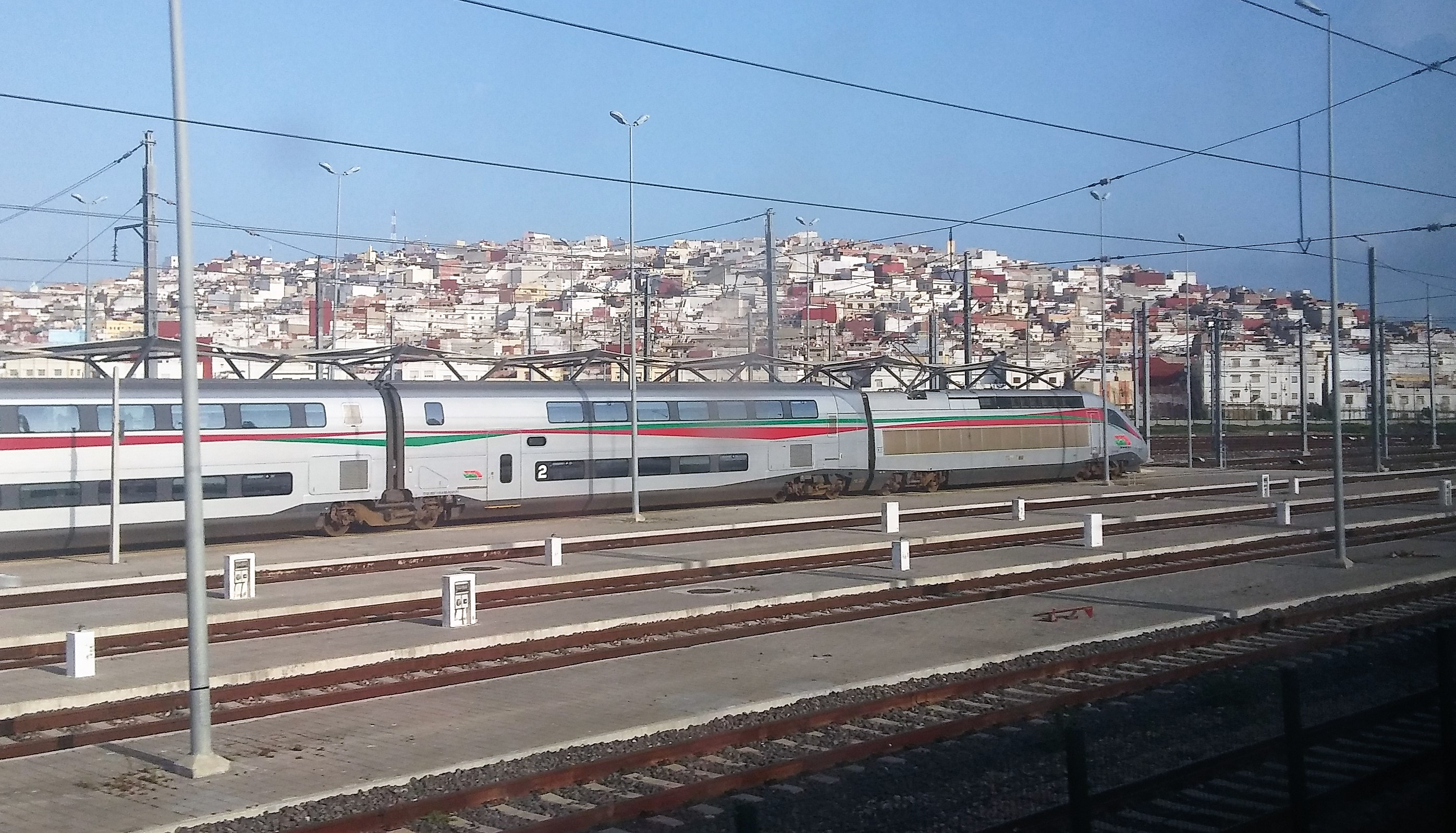 The Moroccan fast train Al Boraq (The Lightning) with the background of Tangier.